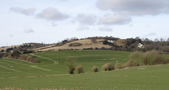 Hollingbourne Down. From the Pilgrim's Way east of the village. The white areas on the right of the top are the sides of a disused chalk pit.